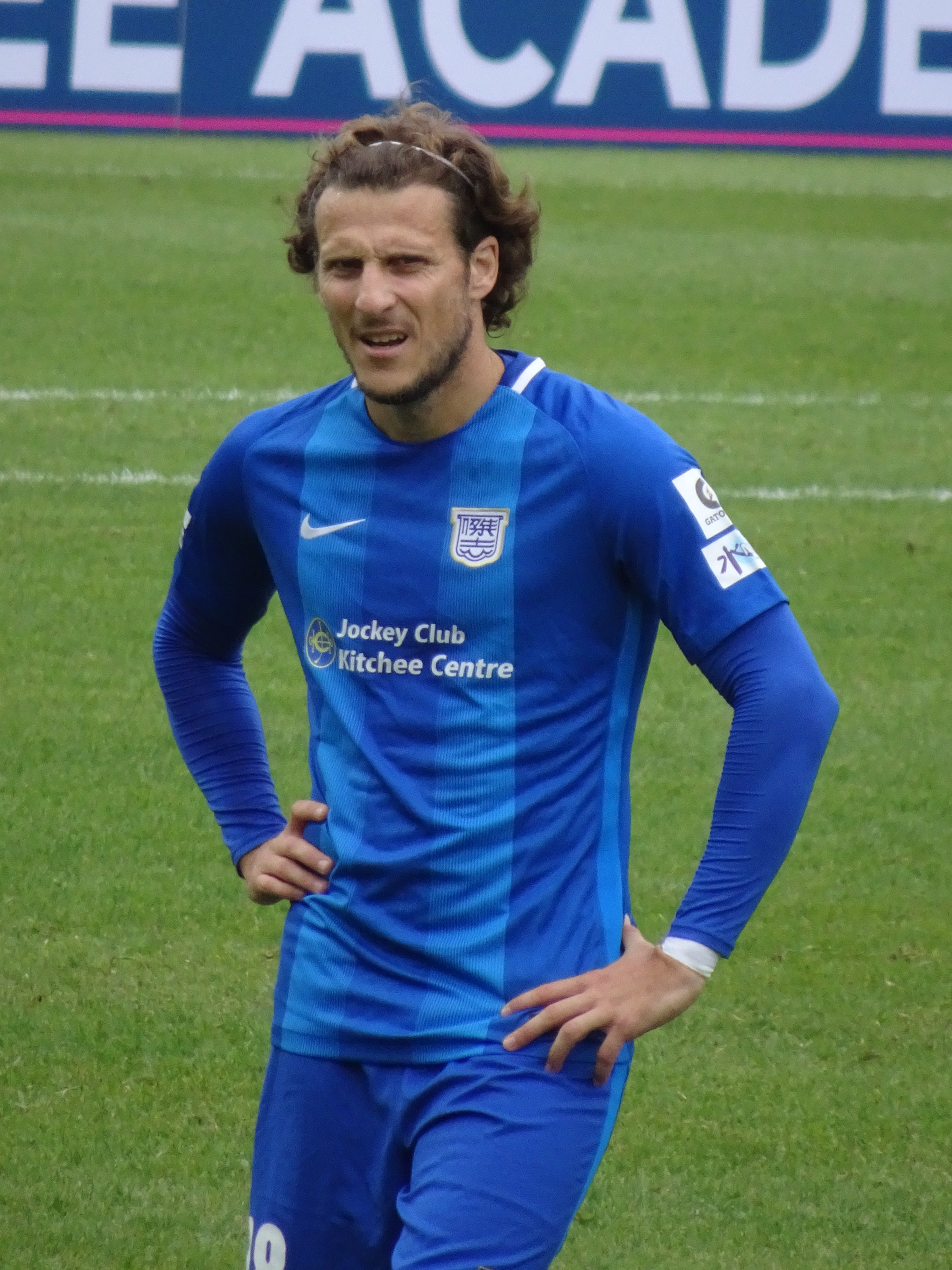 Diego Forlán (28 Jan 2018, Hong Kong Premier League, Kitchee vs Rangers, Mongkok Stadium)